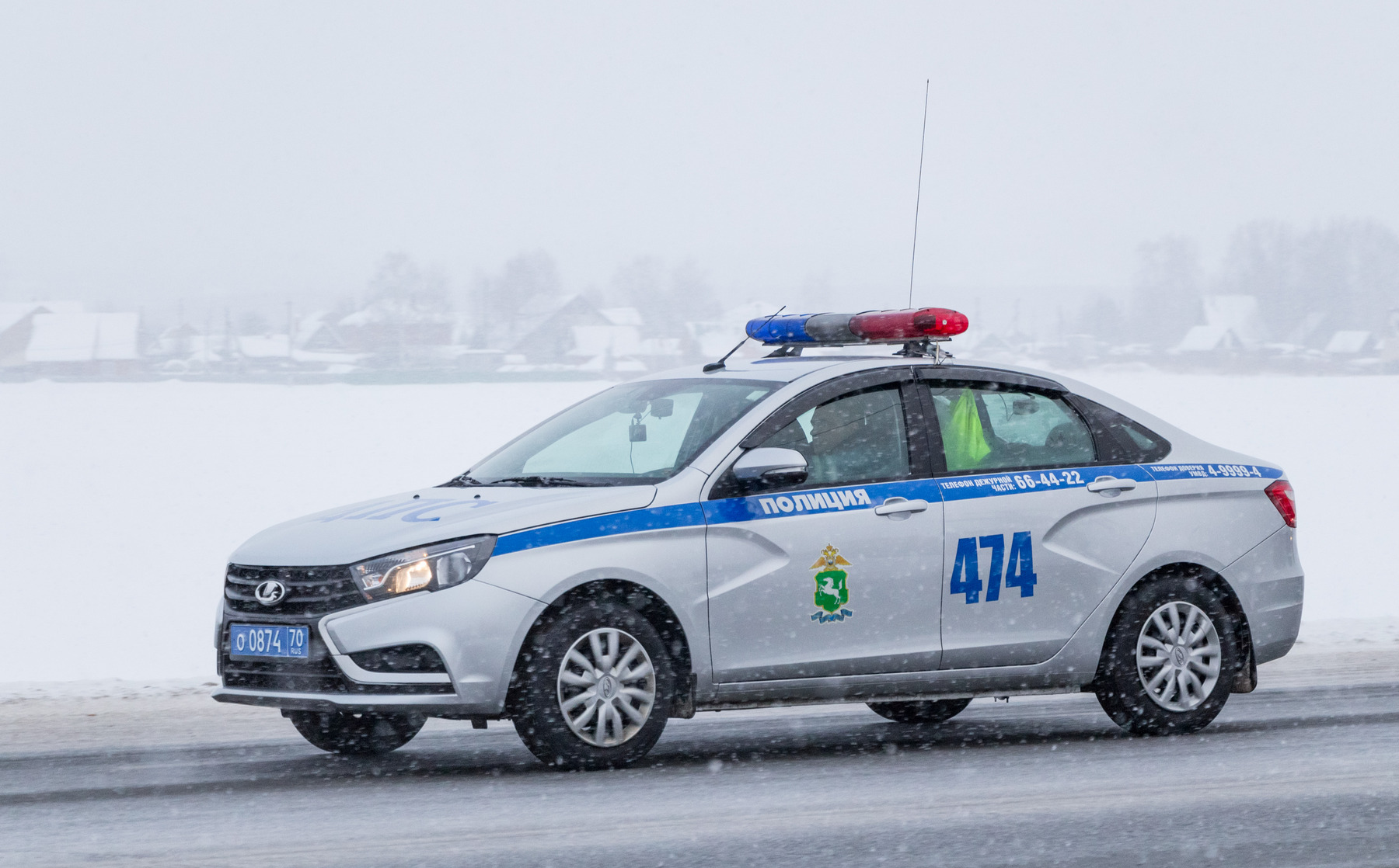 Lada Vesta police car in Tomsk, Russia.